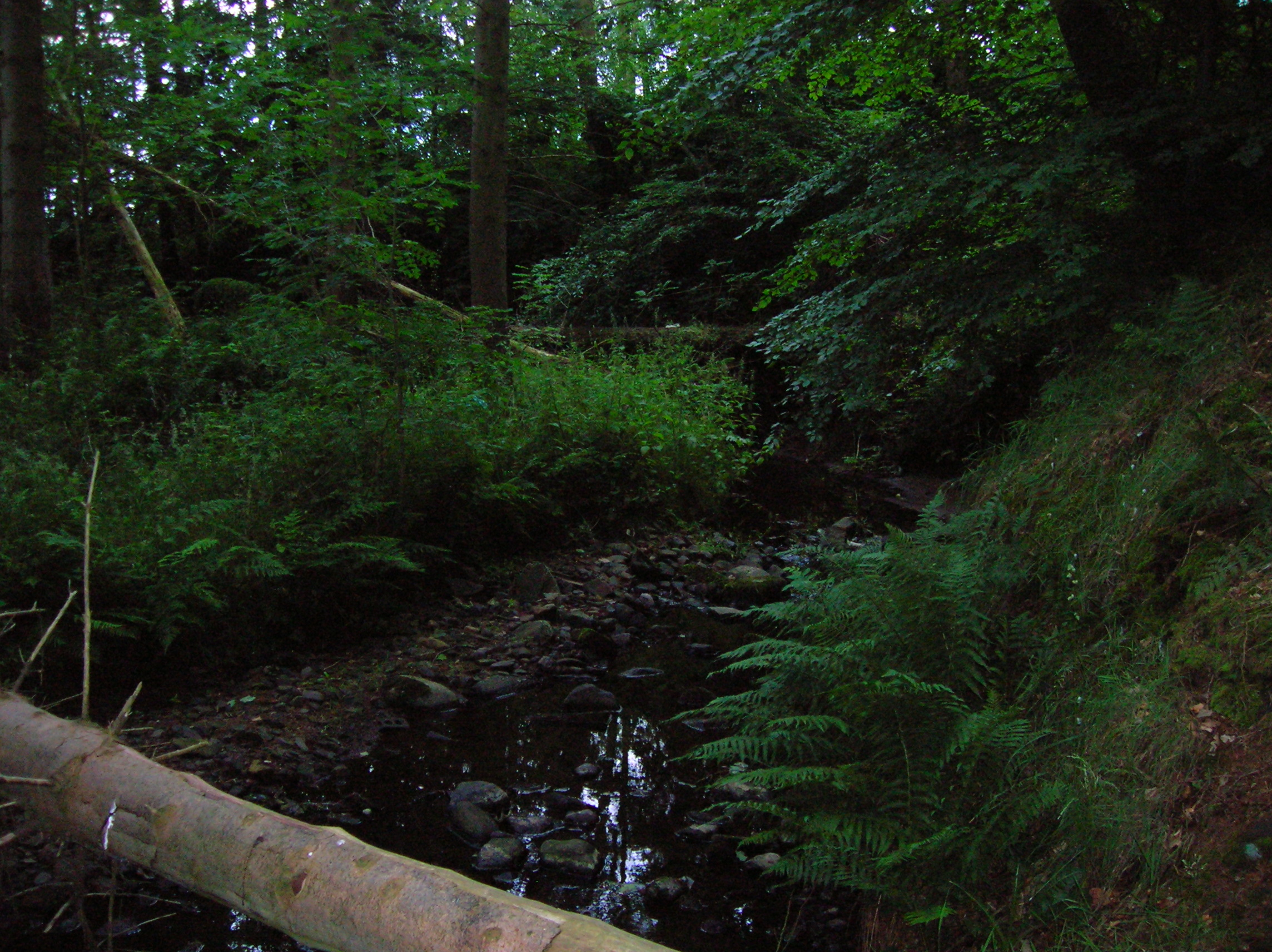 The Templeton Burn, East Ayrshire, Scotland.